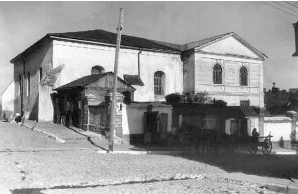 Synagogue of Chelm before WWII